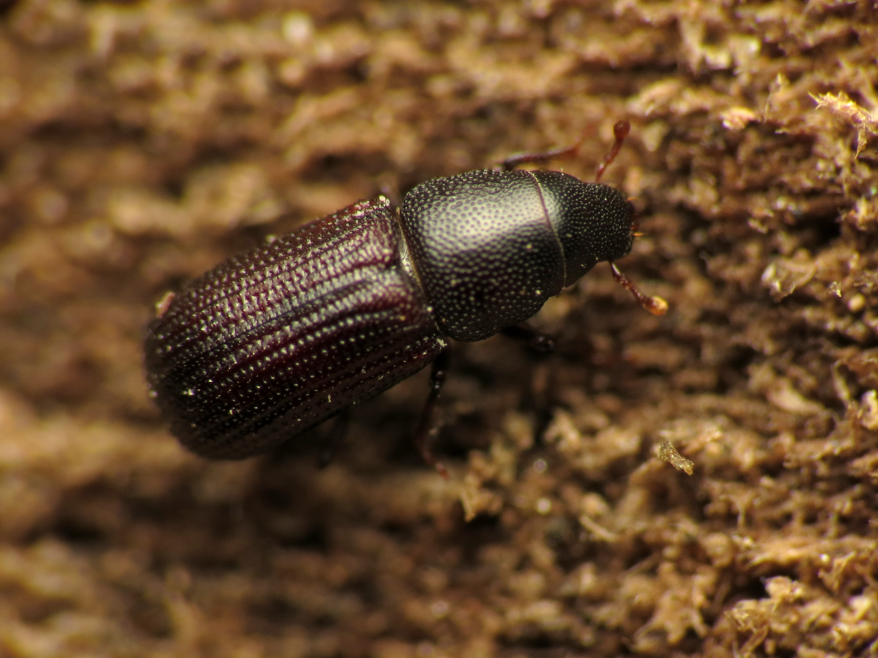 Stenoscelis brevis. Rock Creek Park, Washington, DC, USA.